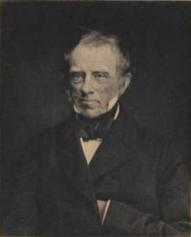 Carl Vilhelm Raben-Levetzau (1789-1870), Danish nobleman, estate owner, and philanthropist. Reproduction of an oil painting.